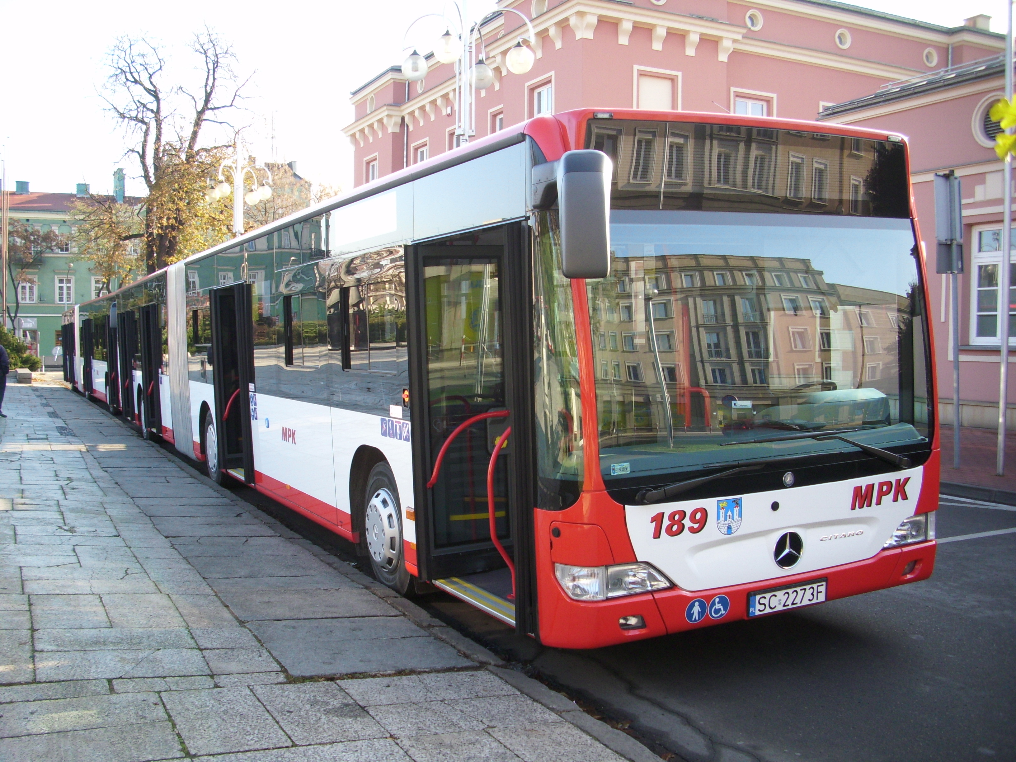 Mercedes-Benz O530 Citaro G bus (#189) in Częstochowa, Poland. Built 2009, MPK Częstochowa operator.